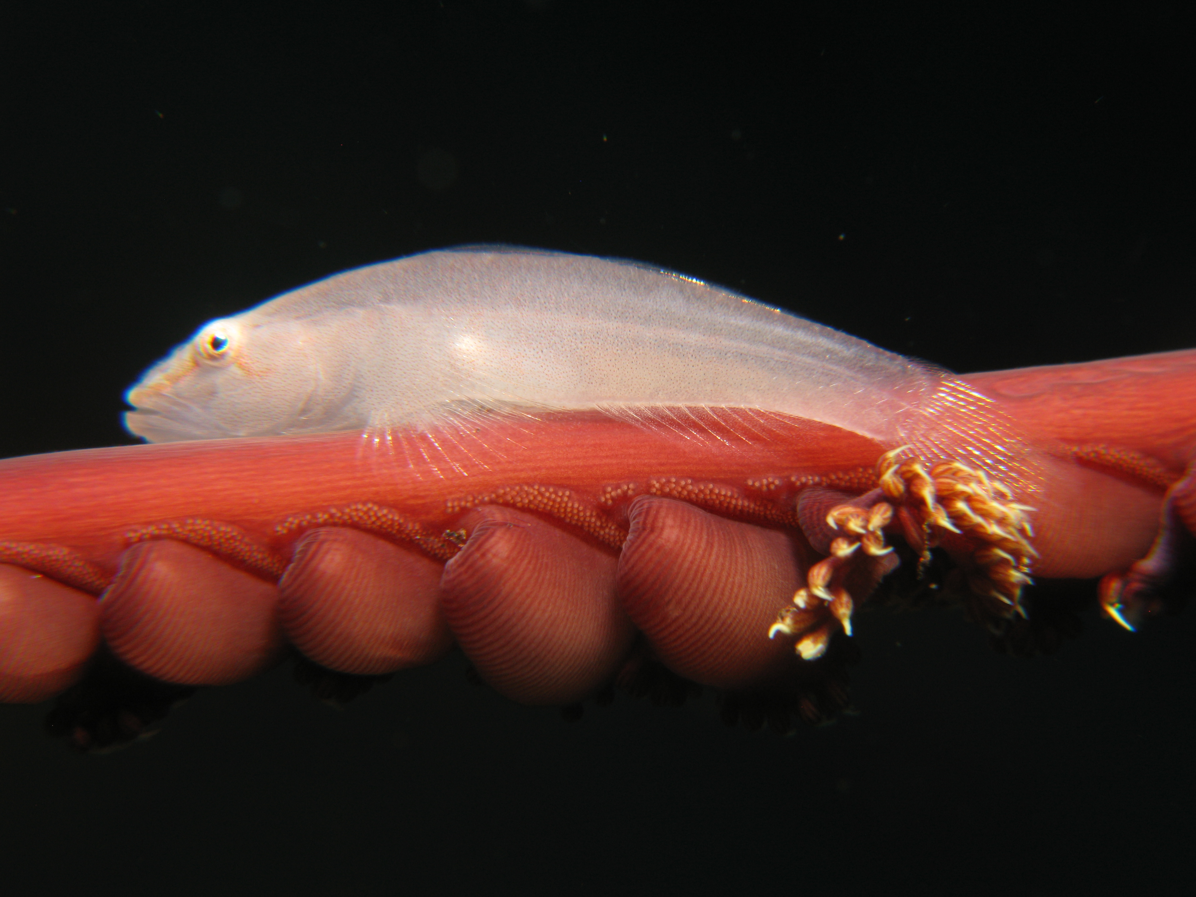 Ghost Goby on Seapen (Pleurosicya boldinghi)